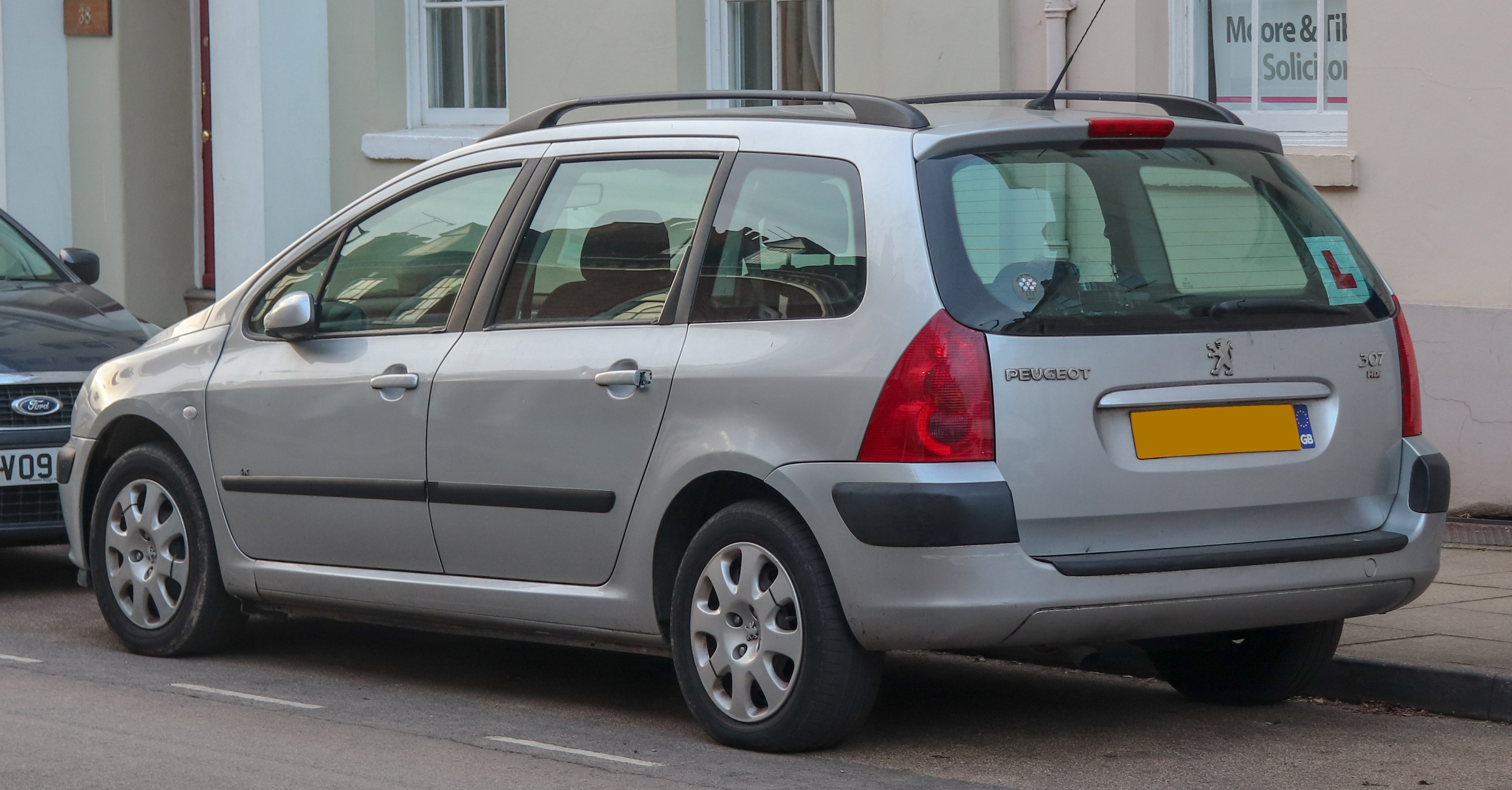 2002 Peugeot 307 SW LX HDi 2.0 Rear Taken in Warwick